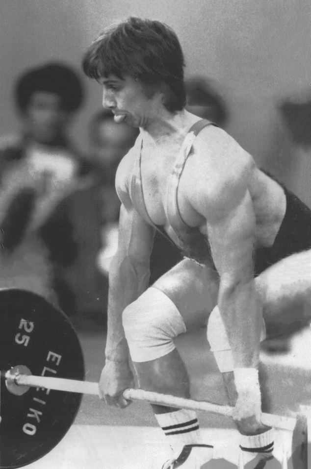 1976 Press Photo Weight Lifter Dominique Bidard at Montreal Summer Olympics